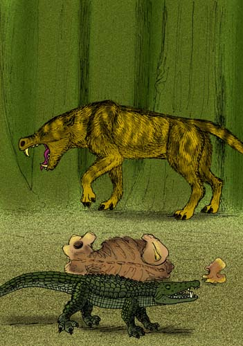 Comparison of the mesonychid Sinonyx and the crocodilian Planocrania of Paleocene China (C) Stanton F. Fink